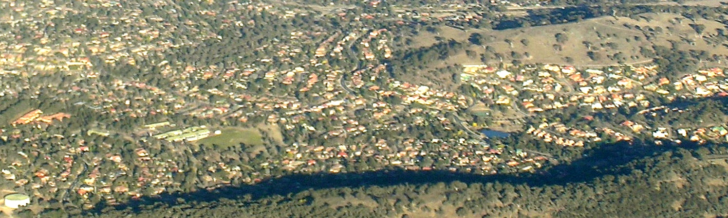 Aerial photo of most of Fadden ACT from east, morning sun